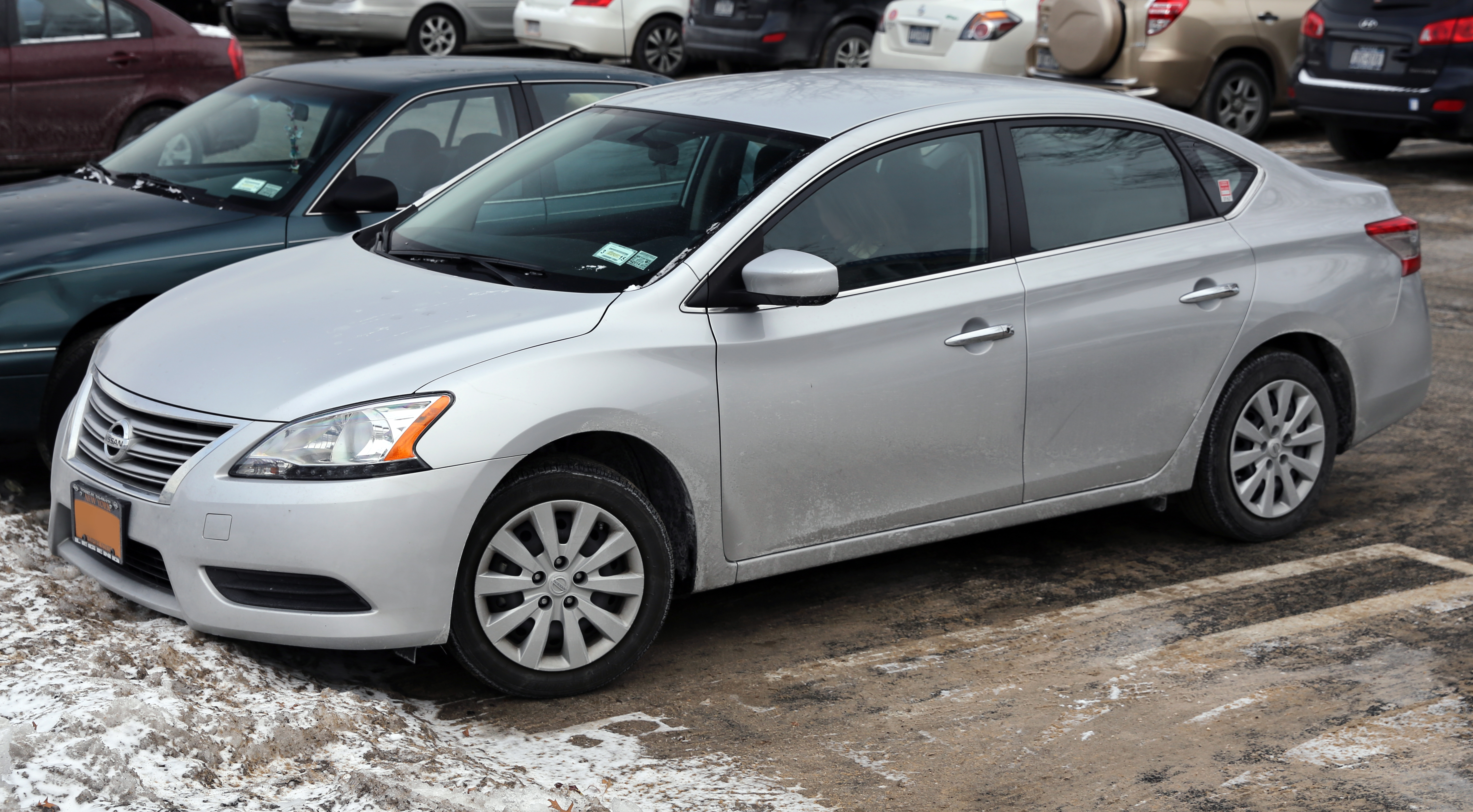 A 2014 Nissan Sentra S CVT (base model) in Floral Park, NY. Fresh off the dealer's lot!